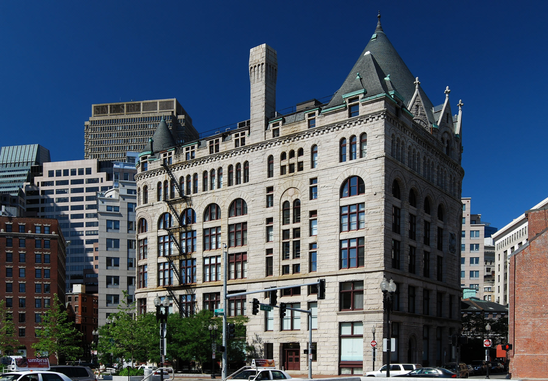 Flour and Grain Exchange Building, aka Boston Chamber of Commerce, Boston (1892)